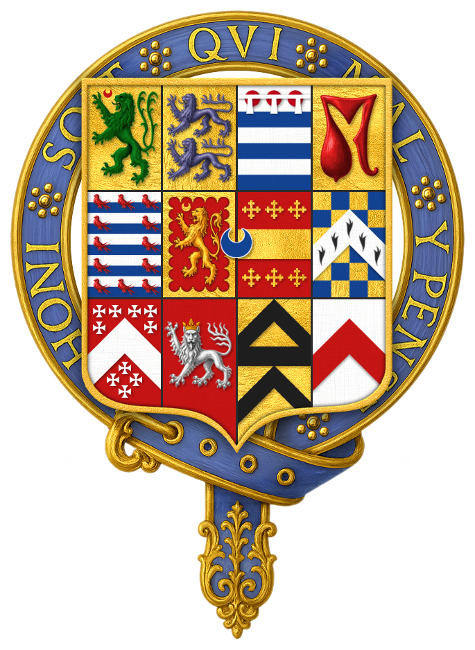 Coat of arms of Sir Andrew Dudley, KG Based the quarterings on those of Sir Andrew's brother, John Dudley, 1st Duke of Northumberland, with a crescent for difference: 1) or, a lion rampant double-queued vert, a chevron for difference (Dudley) 2) or, two lions passant azure (Someri/Dudley of Durham) 3) barry of six, argent and azure, in chief three torteaux, and a label of three points argent for difference (Grey) 4) or, a maunch gules (Hastings) 5) barry of ten, argent and azure, an orle of martlets gules (Valence) 6) gules, a lion rampant within a bordure engrailed or, a chevron for difference (Talbot) 7) gules, a fess between six cross croslets or (Beauchamp) 8) chequy, or and azure, a chevron ermine (Neubourg) 9) Gules, a chevron between ten cross-crosslets argent, six in chief and four in base 10) gules, a lion passant argent, ducally crowned or (Gerard) 11) or, a fess between two chevrons sable (Pecche) 12) argent, a chevron gules (Stafford)